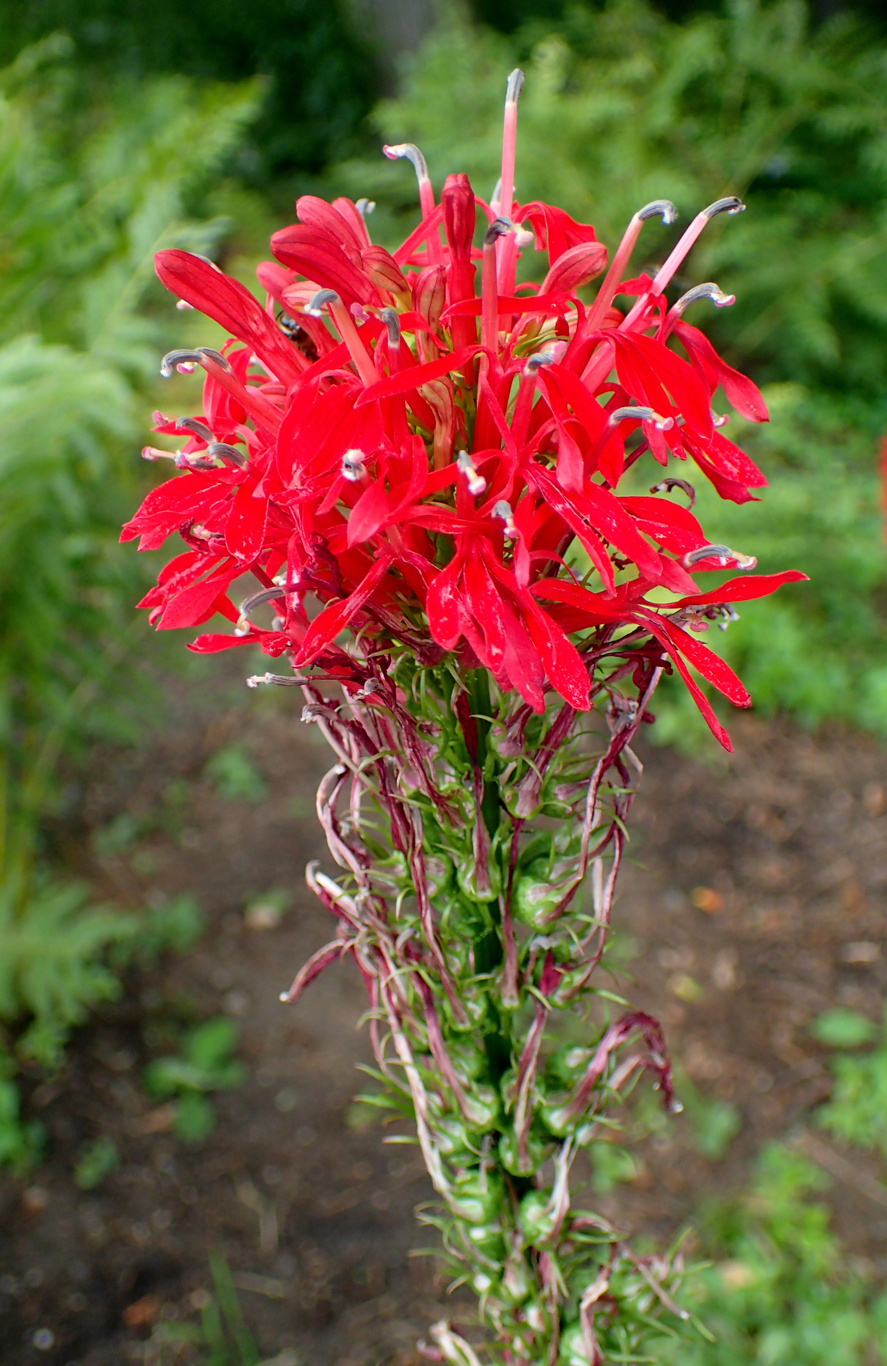 Lobelia cardinalis at the New York Botanical Garden